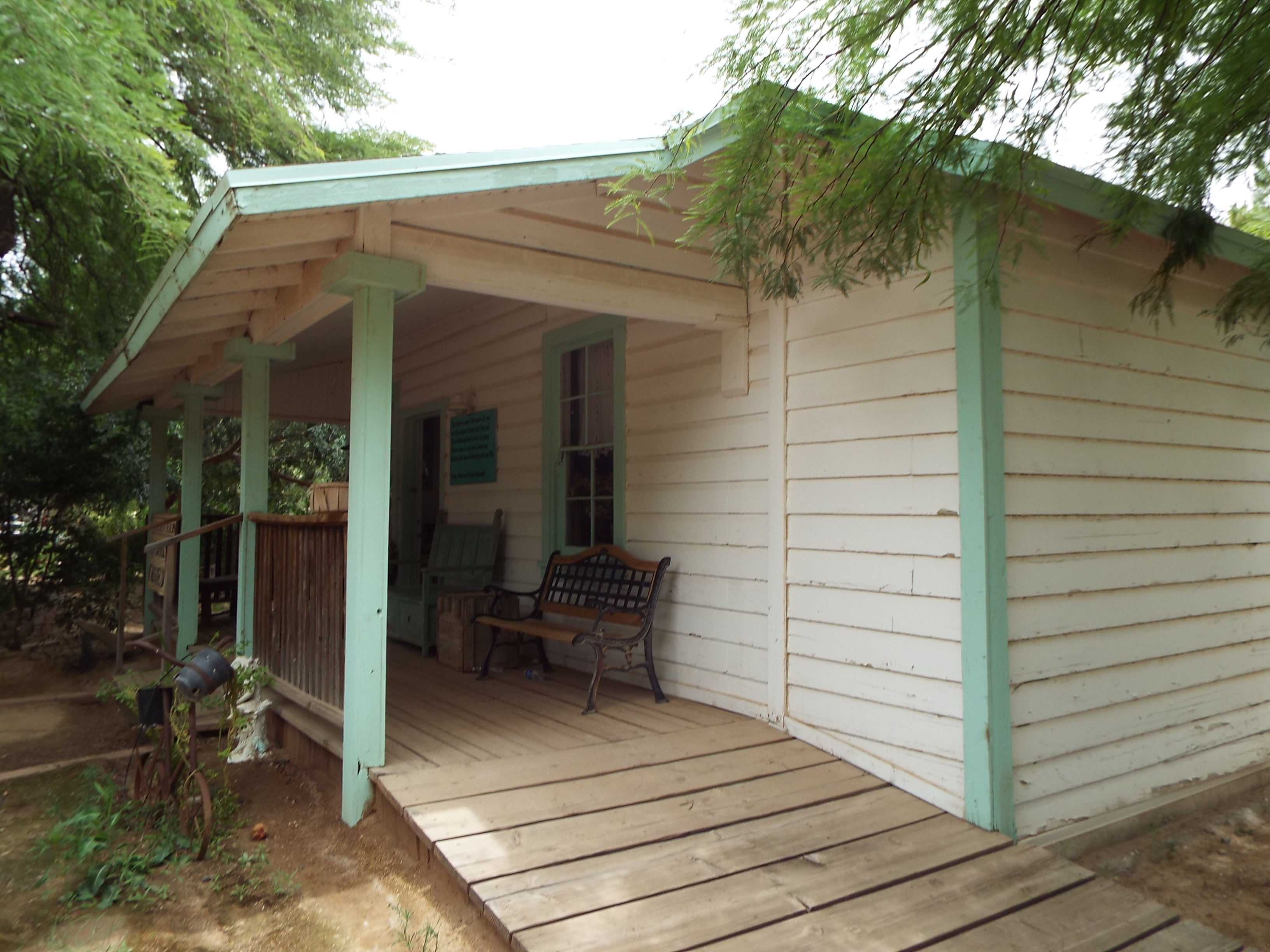 Century old house which served as the home of Ray and Thora Schnepf. The house is located in the grounds of the Schnepf Farm at 22601 East Cloud Road in Queen Creek, Arizona.